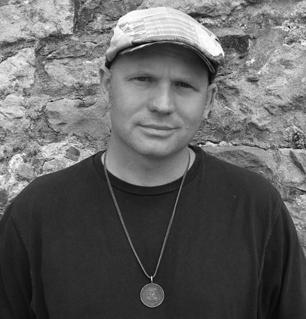 Chad Sweeney in Galway, Ireland, 2009.